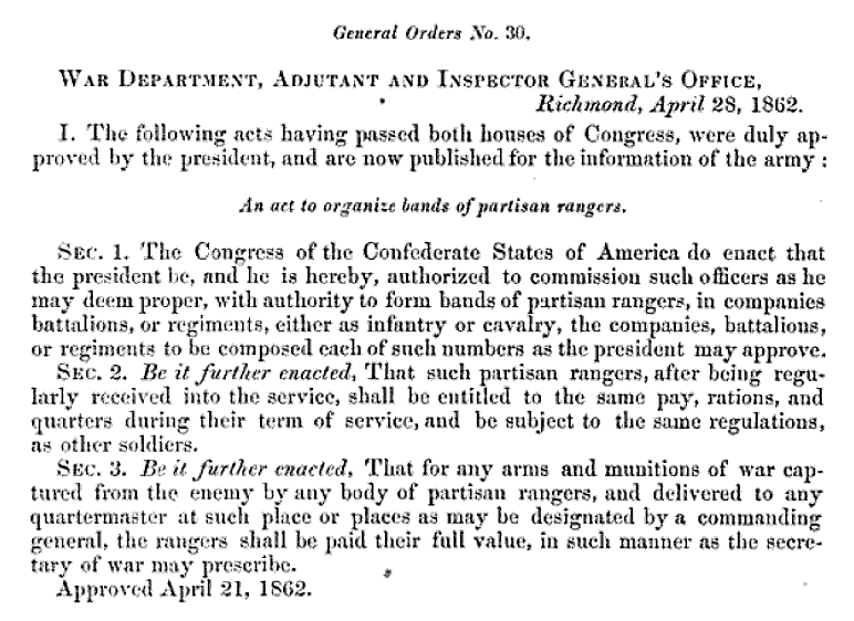 Partisan Ranger Act, 21 April 1862, from Congressional series of United States public documents, Volume 1216, 1865, Page 851.